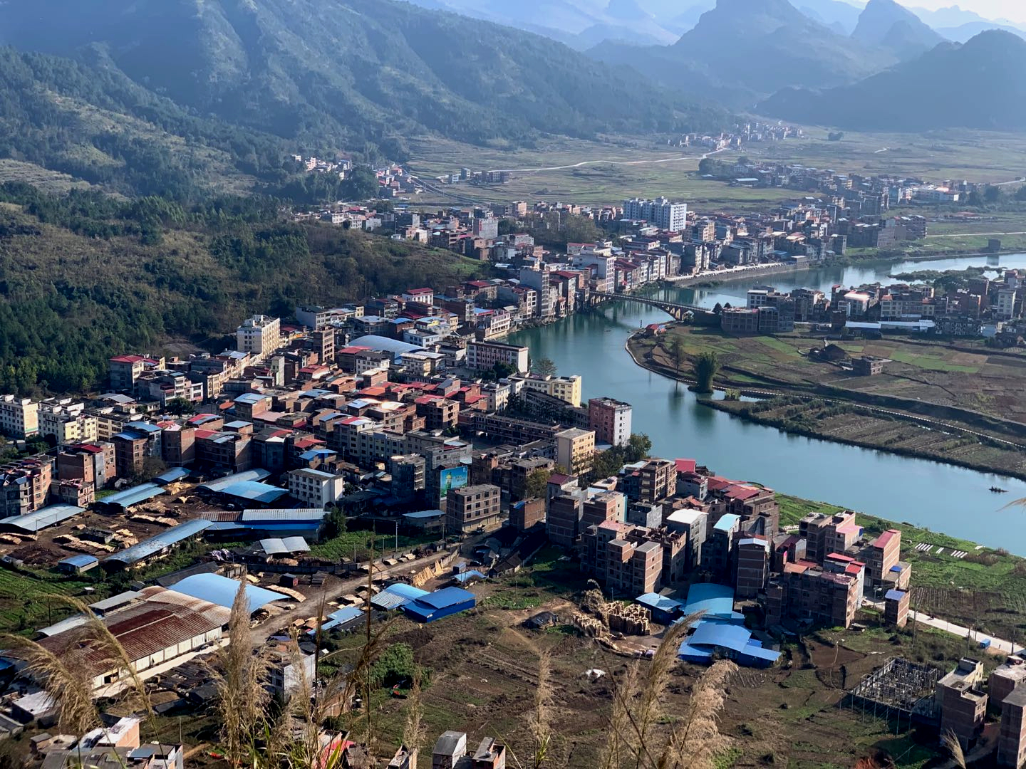 This photograph was taken from atop of a locally known mountain which features a Chinese pavilion. Within the pavilion, the photograph in which the entire city can be observed was taken.